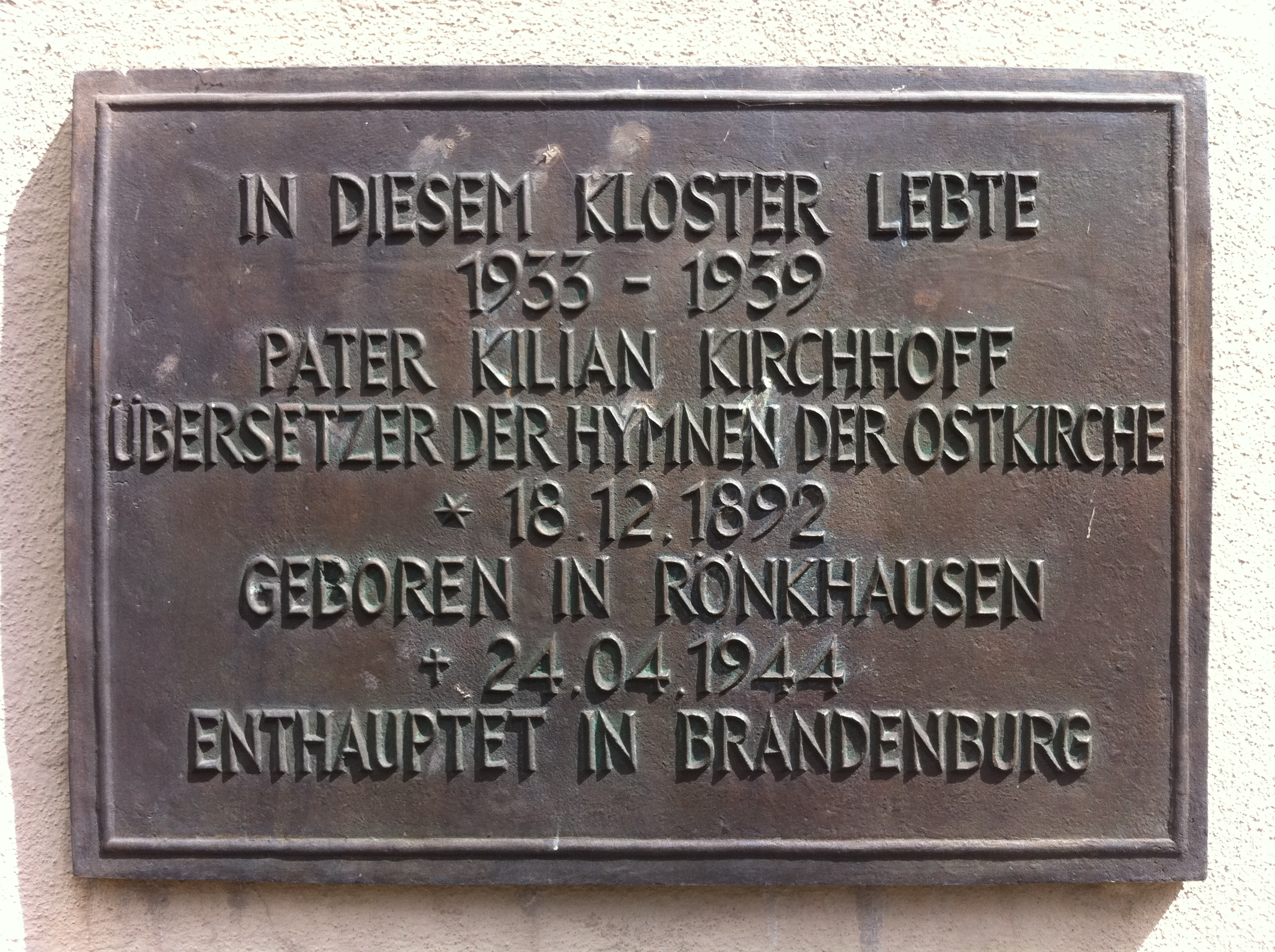 commemorative plaque for Kilian Kirchhoff, monastery church in Rietberg